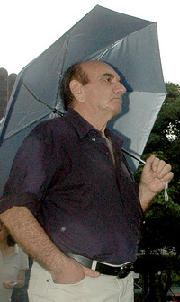 British author and former journalist Alan Shadrake listening to a speech by Jeanette Chong-Aruldoss about the mandatory death penalty at a Reform Party rally at Speakers' Corner, Singapore.